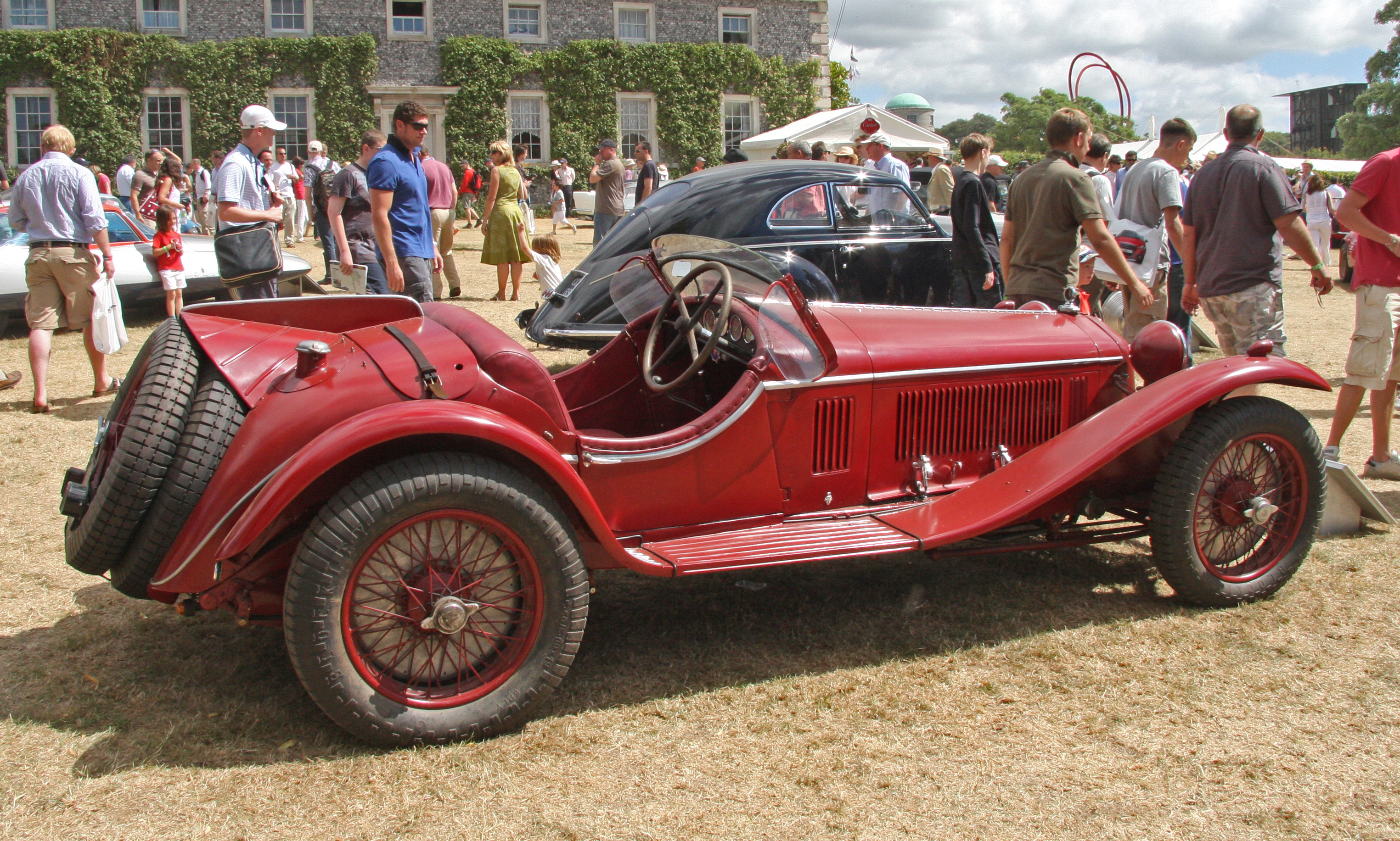 1931 Alfa Romeo 8C 2300 Touring Spider. According to the owner Alain de Cadenet (born 1945), this car won a Targa Florio.[1] The owner also stated this car was made late 1930 as a factory test car, raced the 1931 Targa Florio after which Carrozzeria Touring bodied it as a spider (which it kept until now, i.e. 2015).[2] This "FLC 820" was linked with chassis number 2121031,[3] but this does not match with Fusis list.[4]